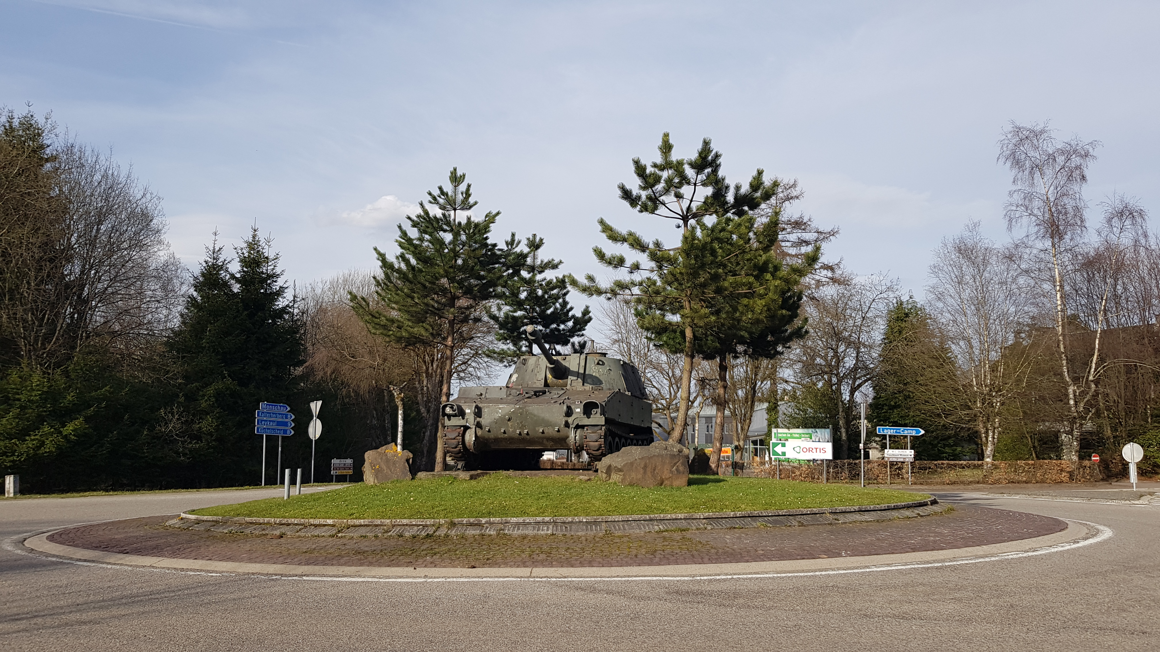 M108 howitzer, Elsenborn, Bütgenbach, Belgium